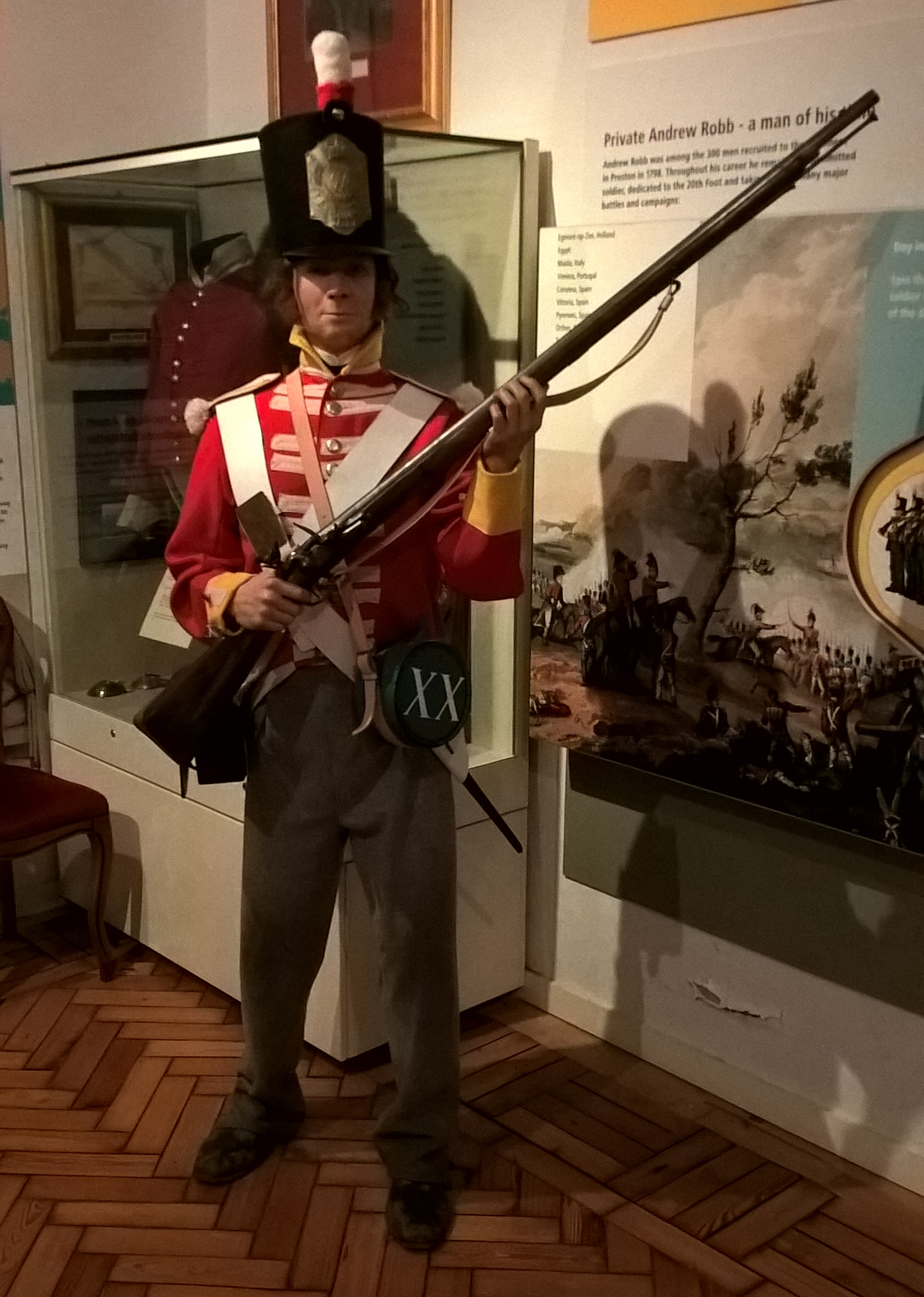 Lancashire Fusiliers Museum, Moss Street,Bury, BL9 0DF. Display of soldier in uniform circa 1800.